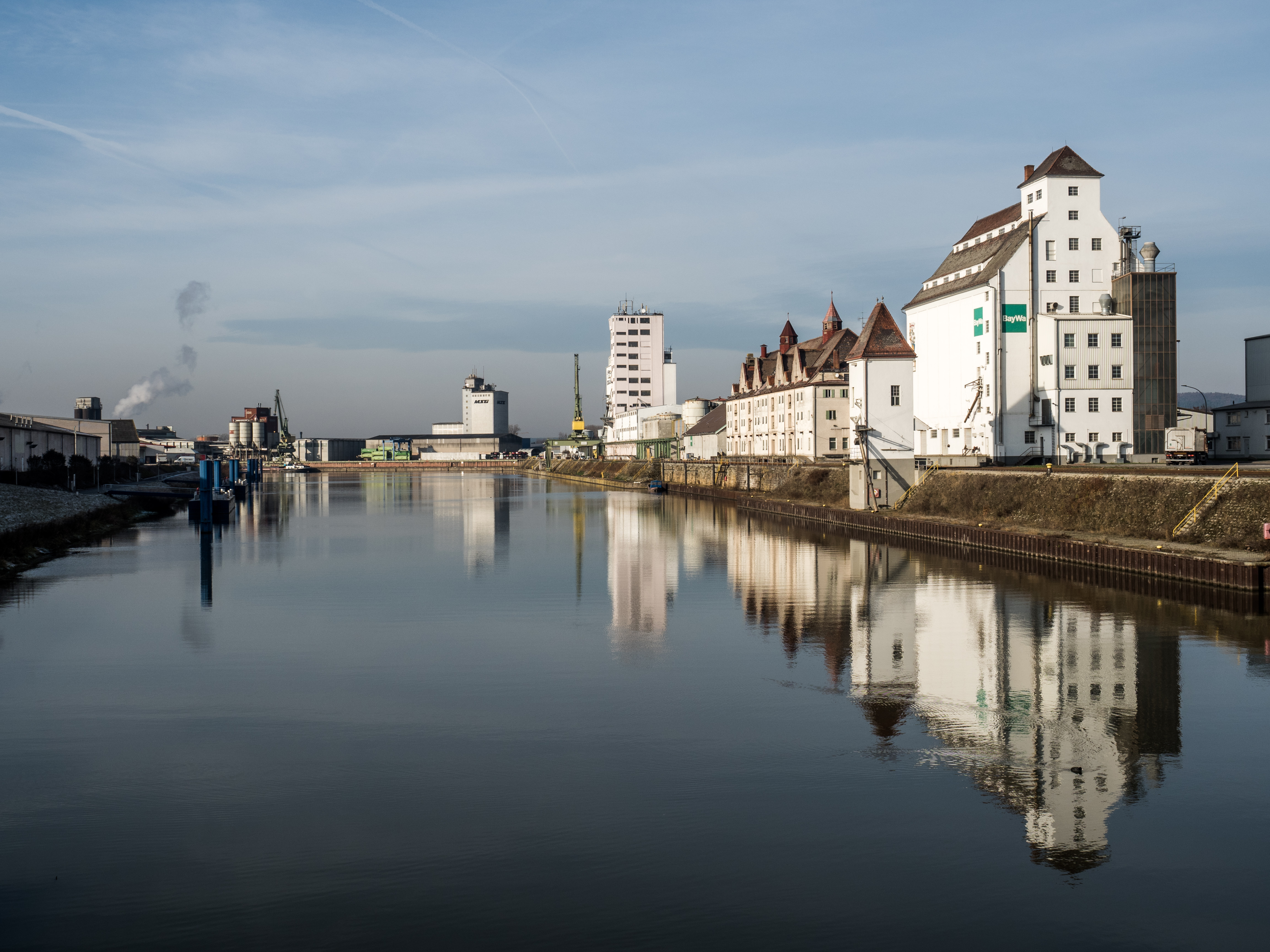 Bamberg habour